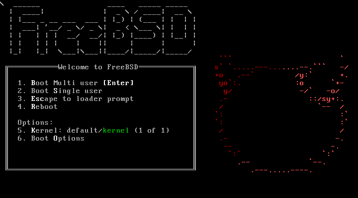 FreeBSD 12.1 netboot bootloader captured using VirtualBox on a MacBook Pro